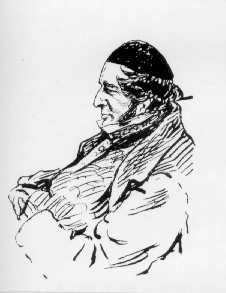 Sketch of Thomas Jefferson Hogg wearing a knit smoking cap